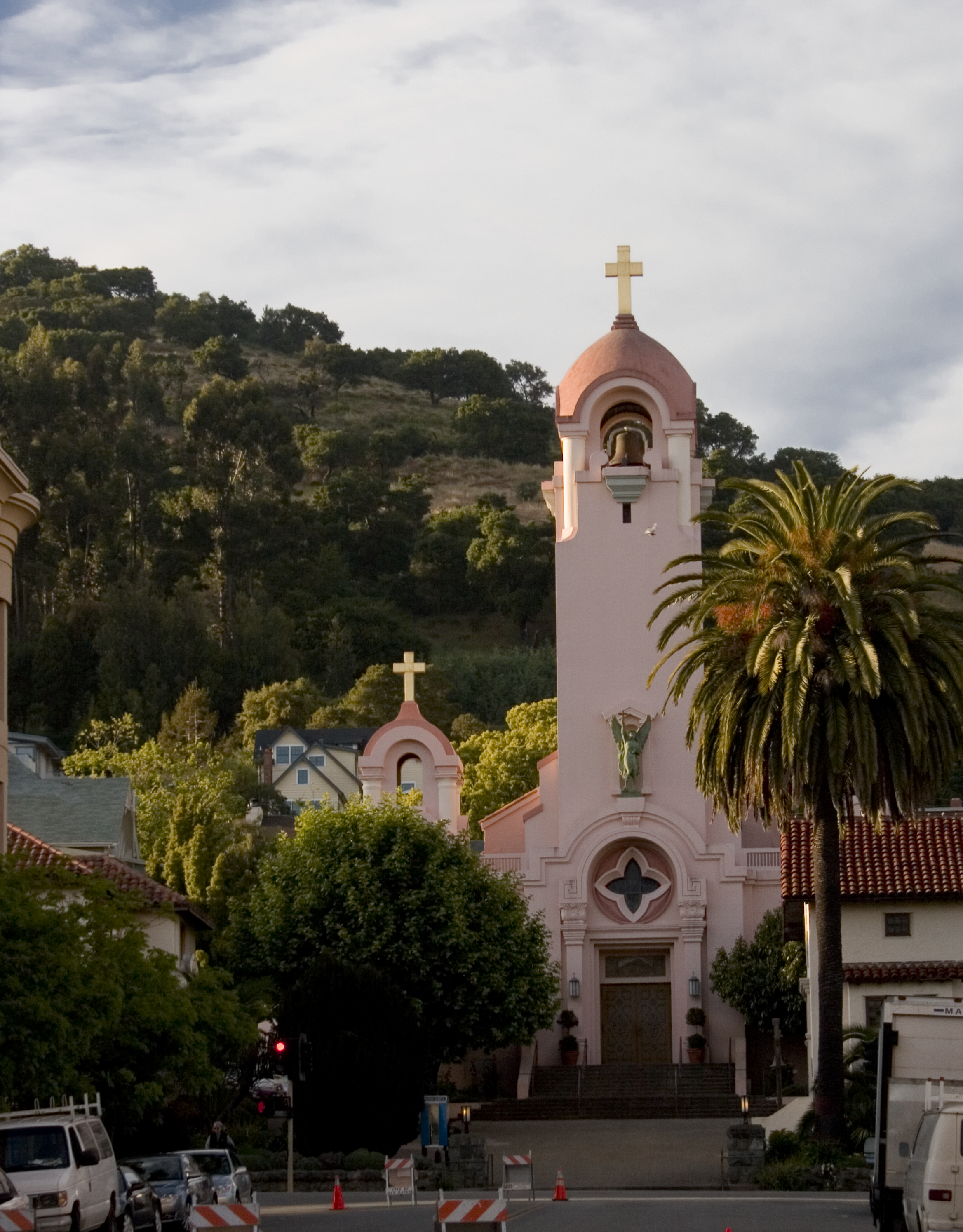 Saint Rafael Church in San Rafael taken from 4th and A streets, facing north. The church is often mistaken for the San Rafael Mission, which was destroyed. The small building under the palm tree is a rebuilt version of the mission's chapel. The church is one of Marin County's most recognizable landmarks and serves as a symbol for the city.